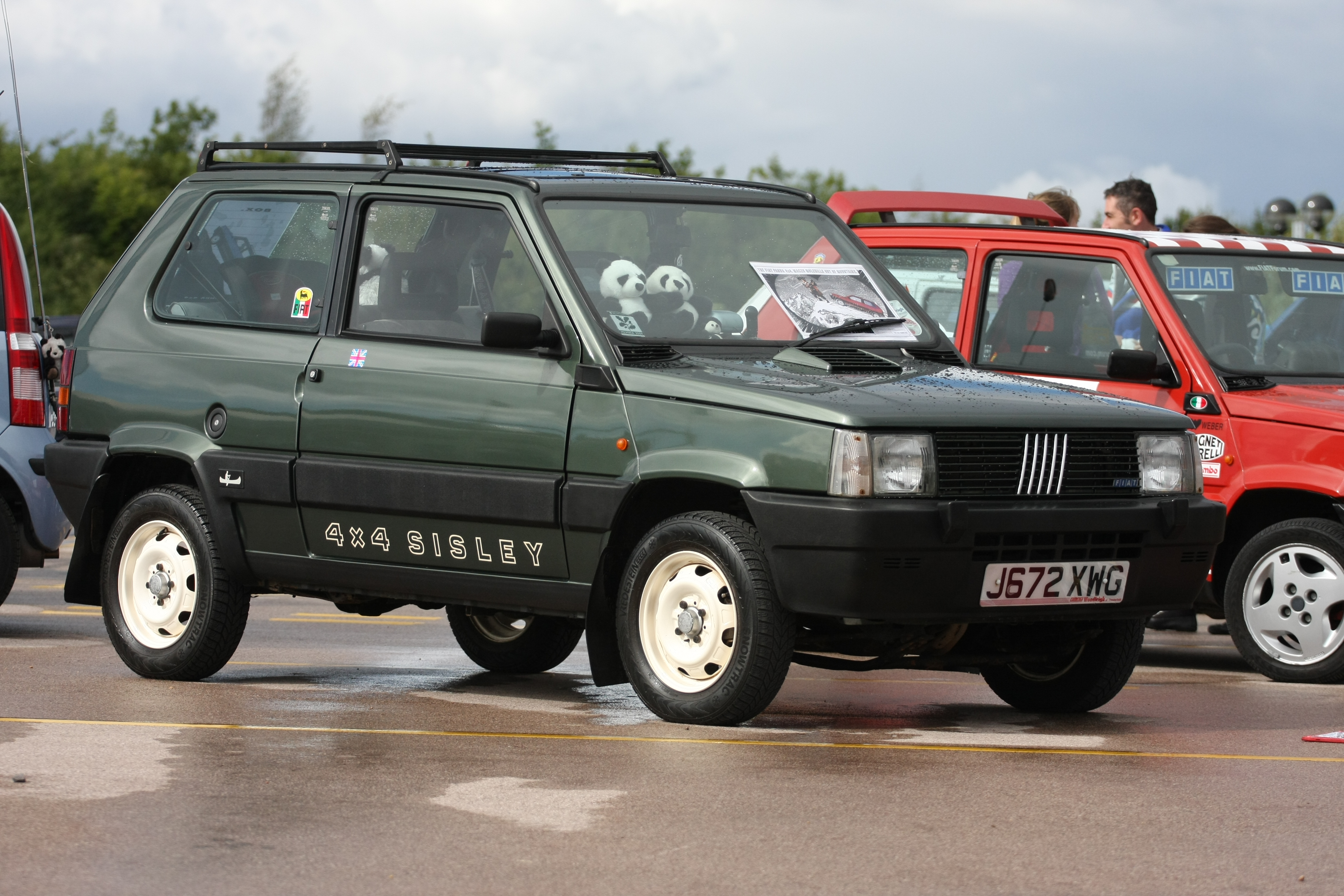 Auto Italia Autumn Italian Car Day Heritage Motor Centre Gaydon 2010